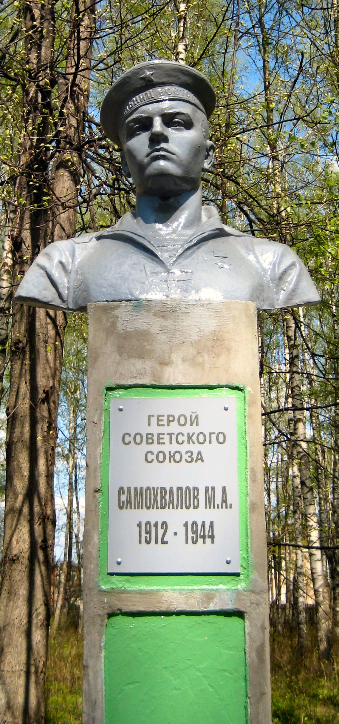 A memorial of Samokhvalov M.A